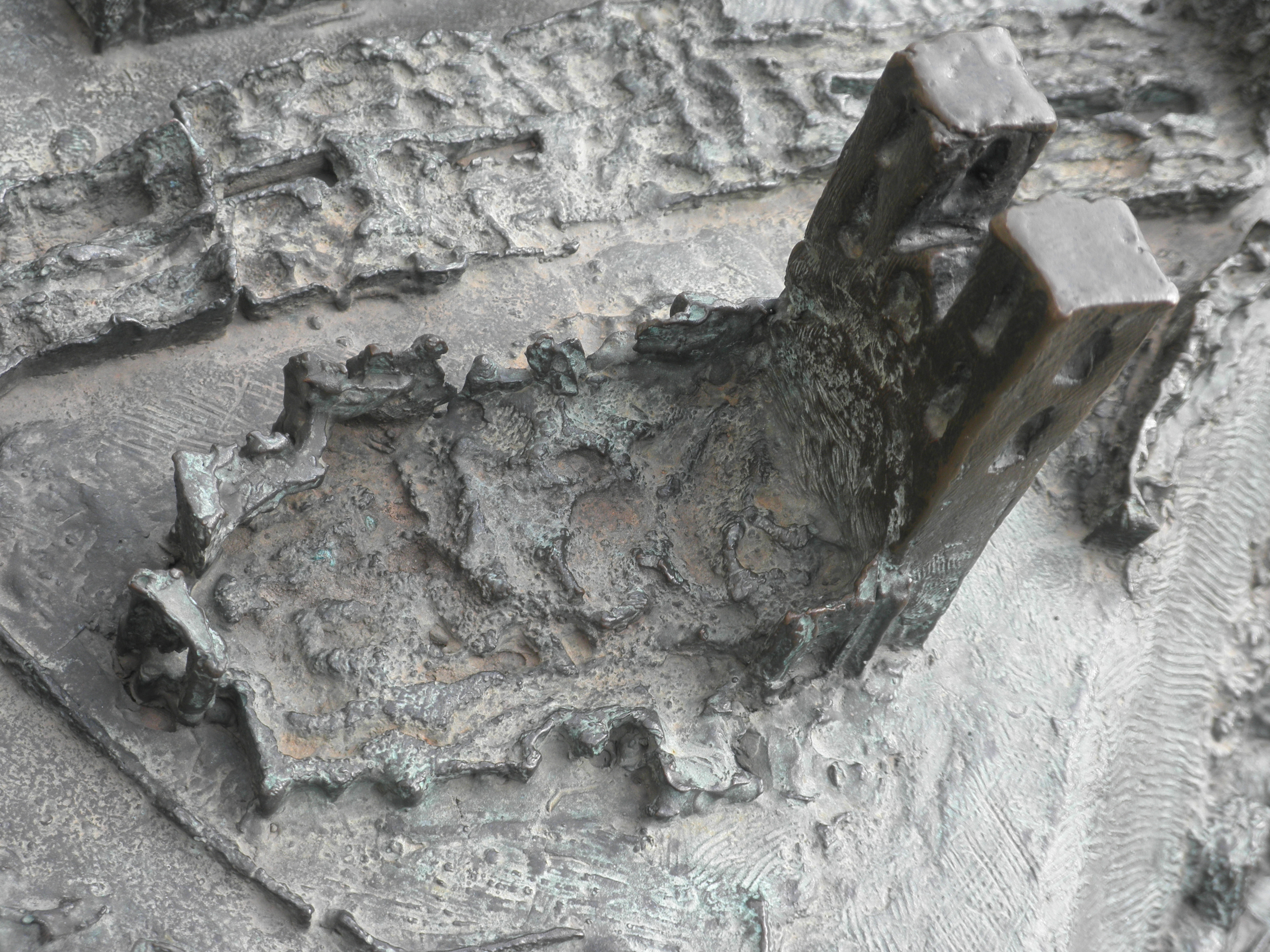 Church Sanct Martini in Halberstadt 1945